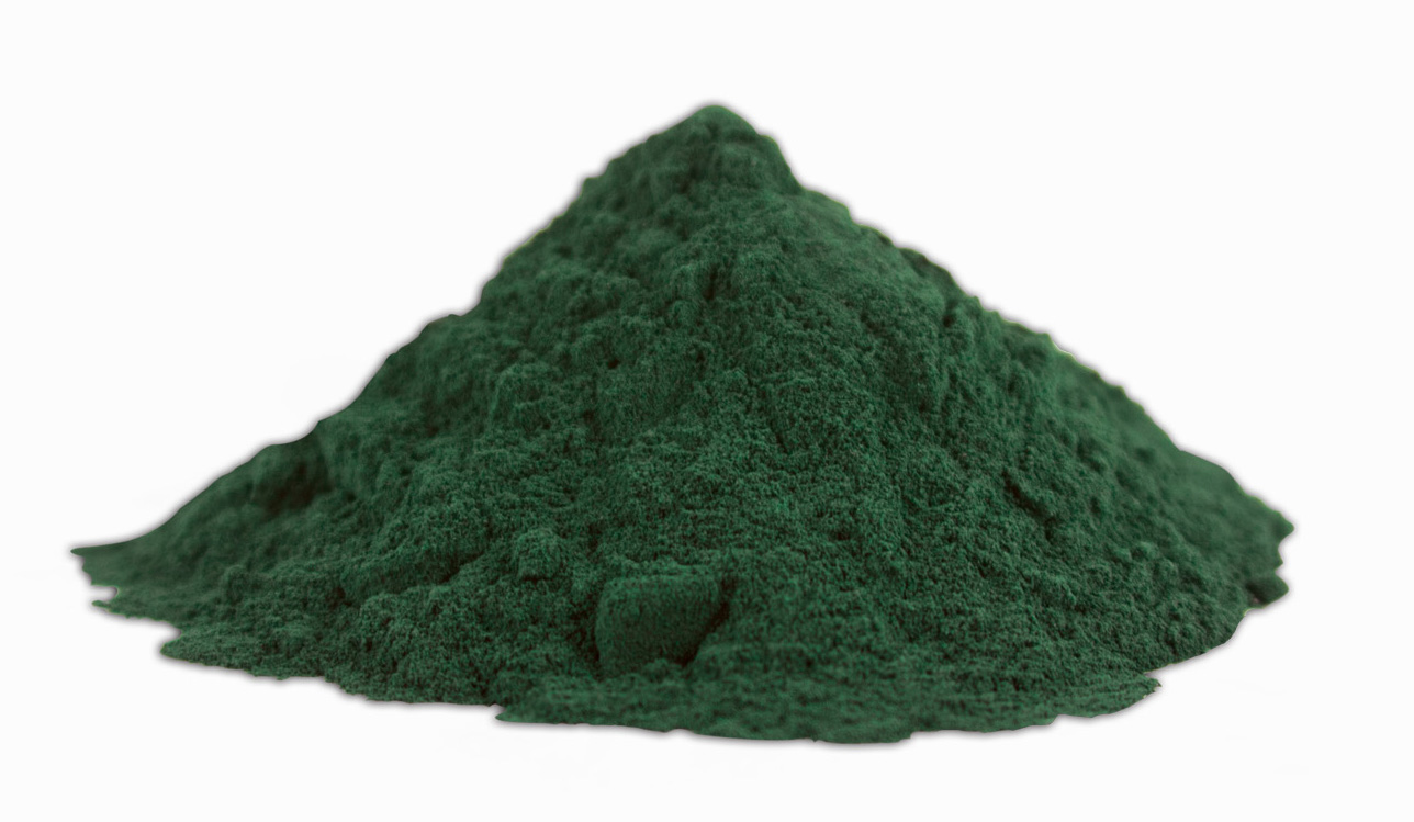 Spirulina Powder close shot.